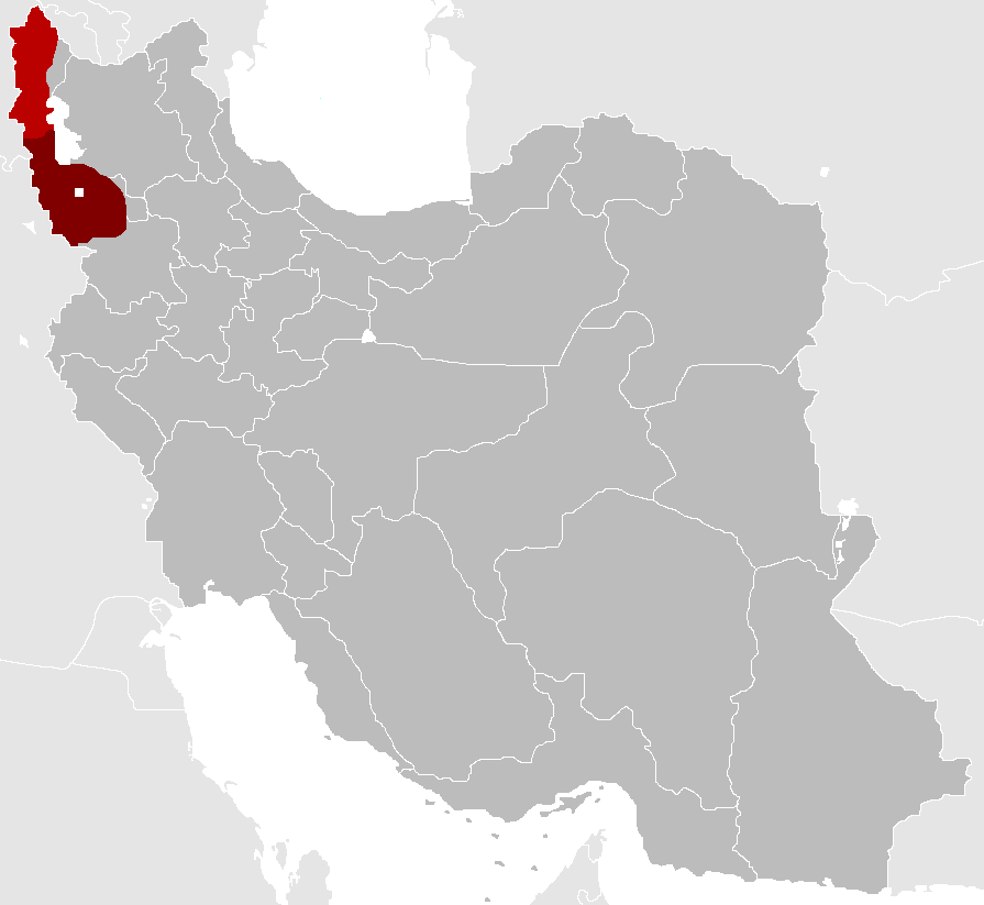 Republic of Mahabad Dark area: the republic according to Merhad Izady Dark+light area: the republic according to Erich Feigl White square:Location of the capital town Mahabad